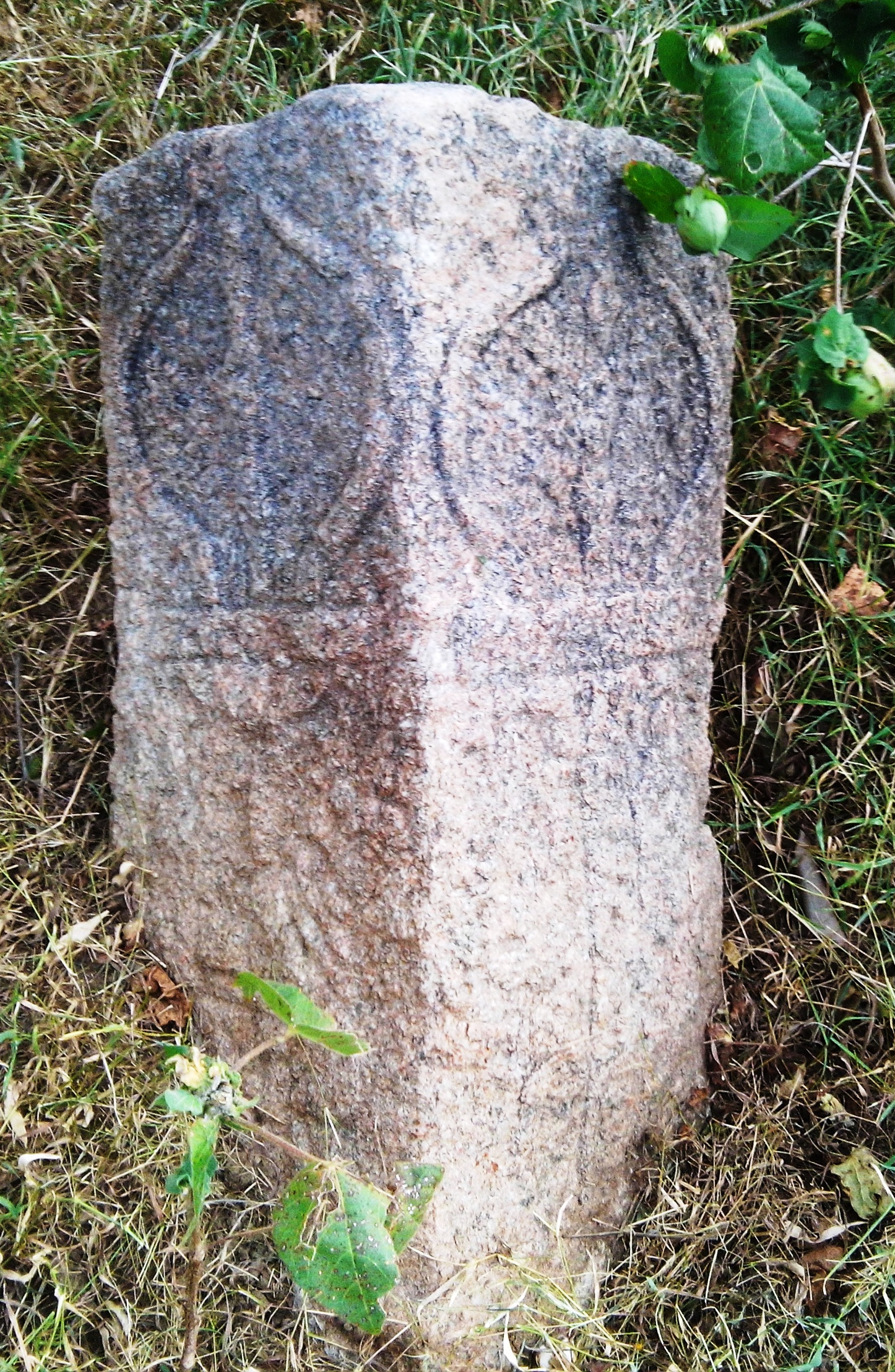 SOOLAKKAL